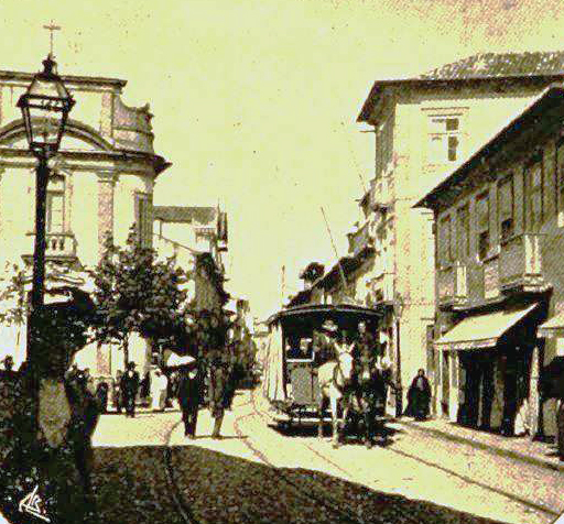 Streetcar in São Roque square and Rua da Junqueira shopping street in Povoa de Varzim (1914).